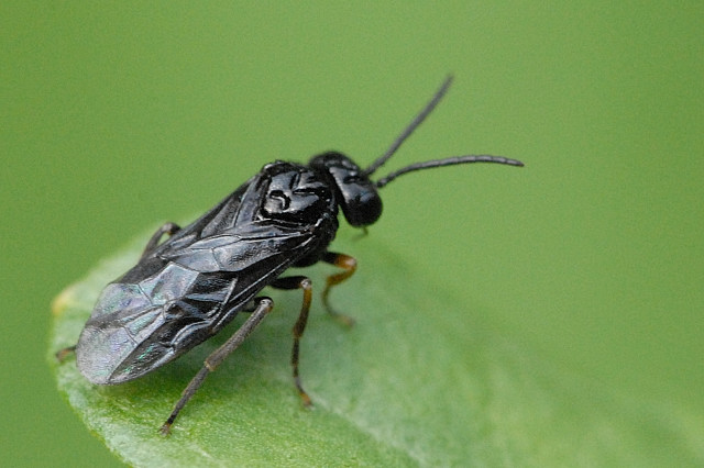 Stethomostus fuliginosus from Commanster, Belgian High Ardennes .